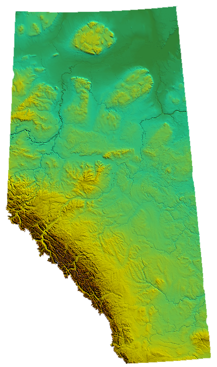 Physical map of Alberta